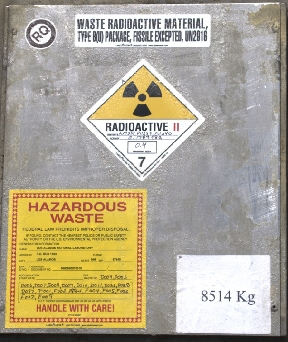 Labels on the Outside of Arriving TRUPACT-II Shipping Packages Tell Waste Handlers What Kind of Waste is Contained Inside. The Labels Include the Type of Package, Radioactive Hazard, Whether There is Hazardous Waste Inside, and the Actual Weight of the Loaded TRUPACT-II (Shown Left).